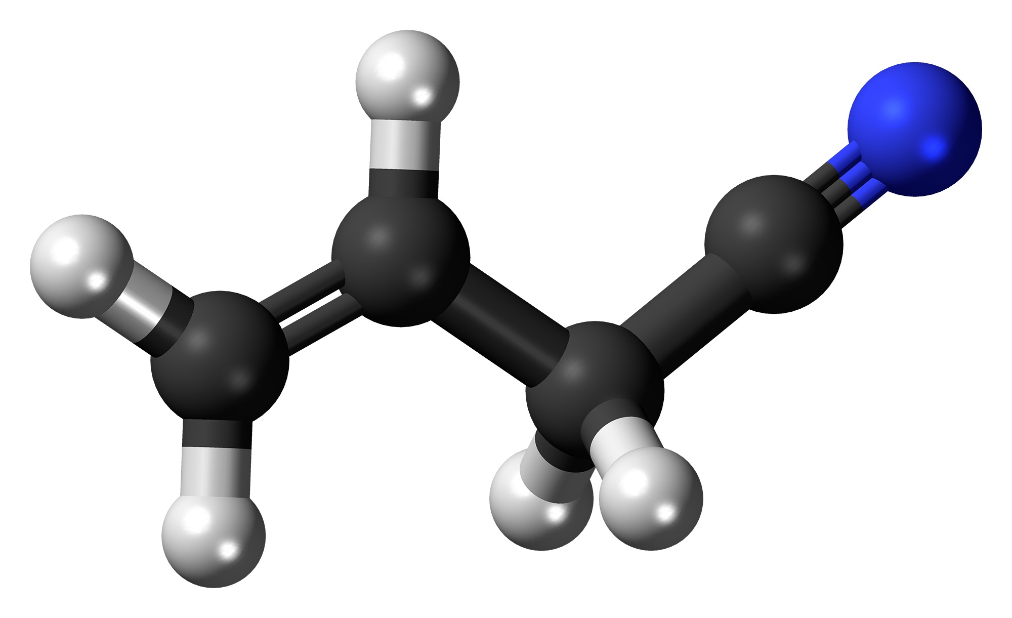 Ball-and-stick model of the allyl cyanide molecule, a nitrile. Color code: Carbon, C: black Hydrogen, H: white Nitrogen, N: blue